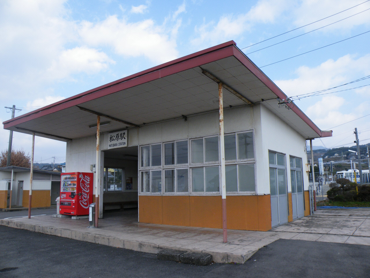 JR-Kyushu Matsubara Station(Omura Line)